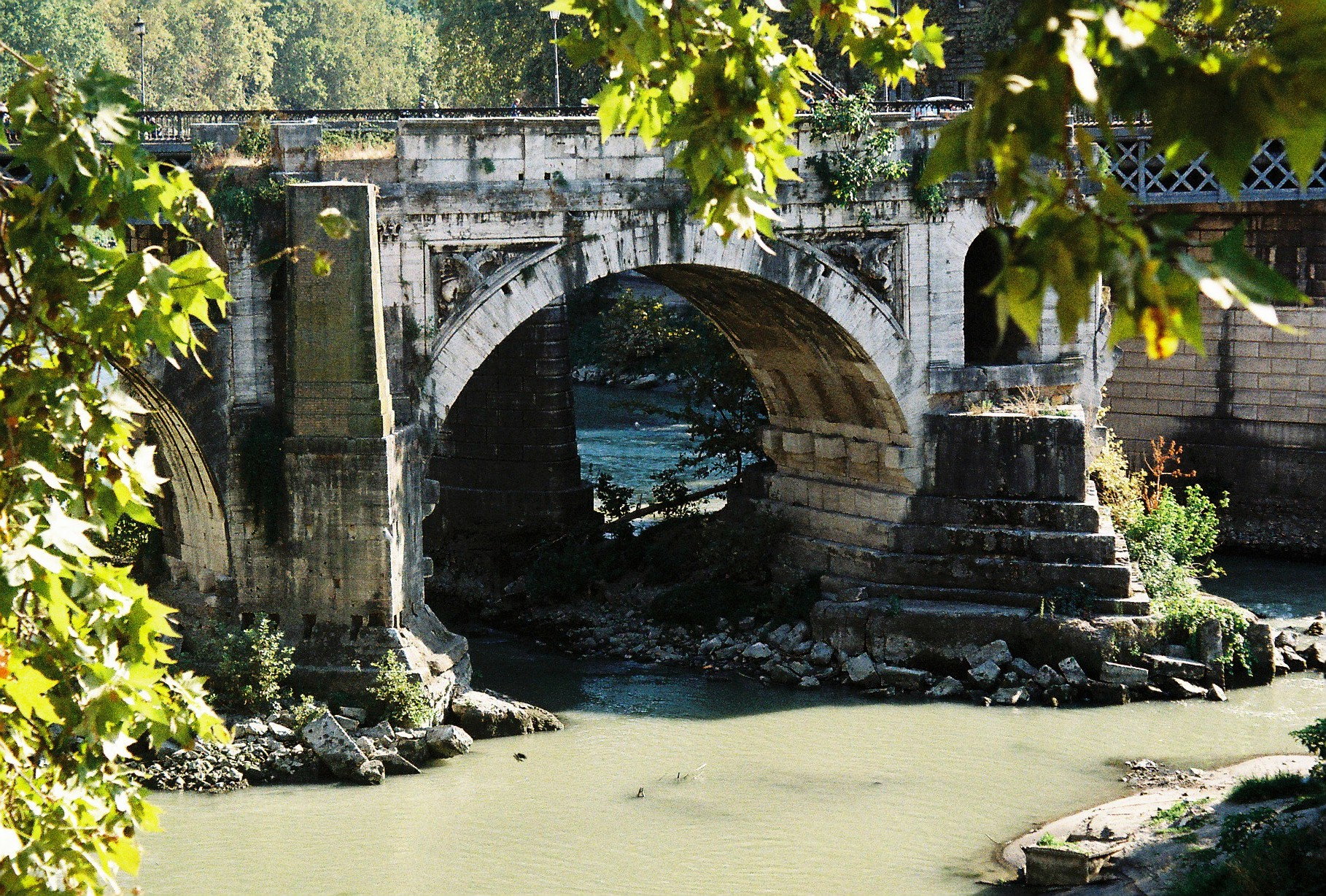 Pons Aemilius